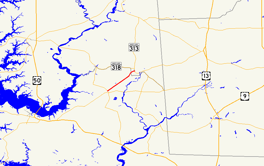 Map of Maryland Route 307